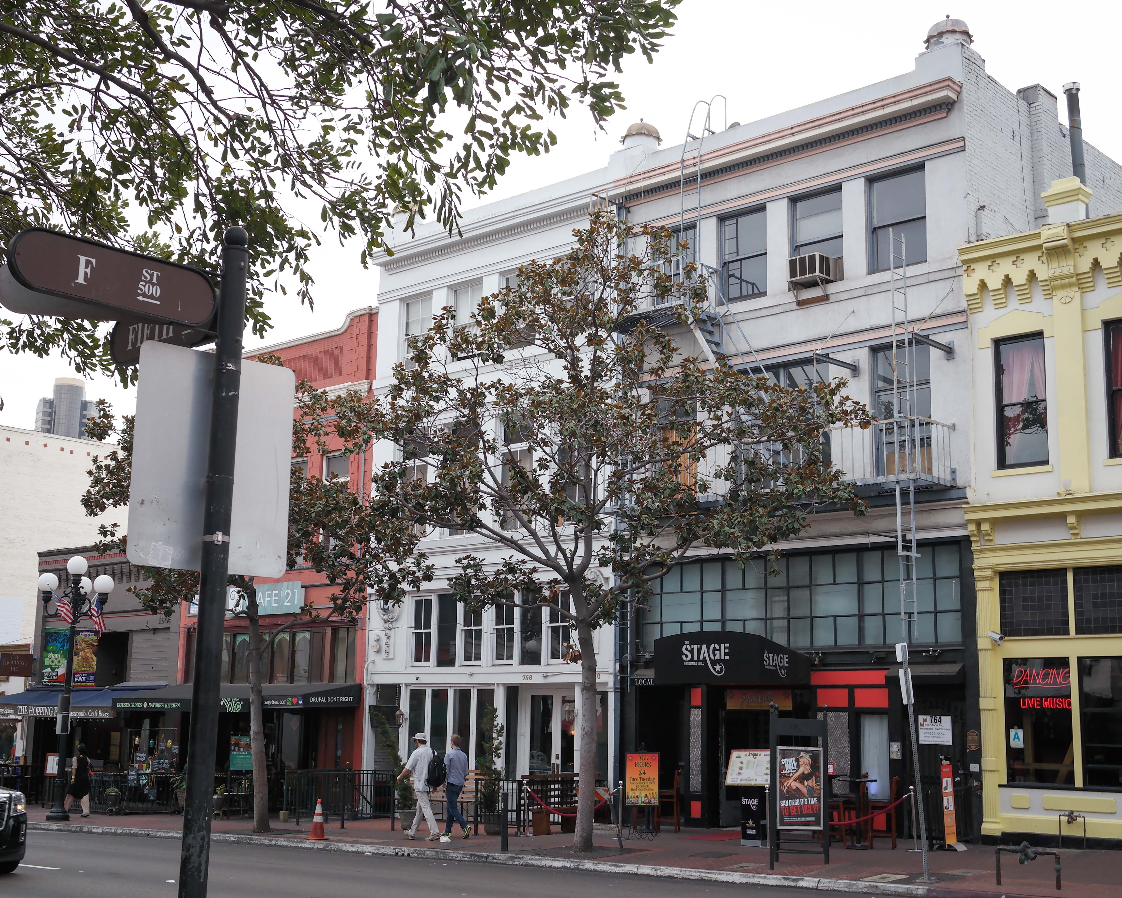 Historic Building Survey plaque: "37 The Loring Building, 1873. The facade of this building makes it appear as if it were part of the Fritz Building to the South. However, they are actually two separate buildings. The style is Modern Renaissance, and it is made of brick and steel. In 1885, the use of red and black brick with Victorian woodwork produced one of the Gaslamp's most unique facades. Renovations in 1908 resulted in the blending of the two facades, as well as in the construction of a third floor. Tenants included Arthur Loring's Book and Toy Store and the Gold Club Gym."